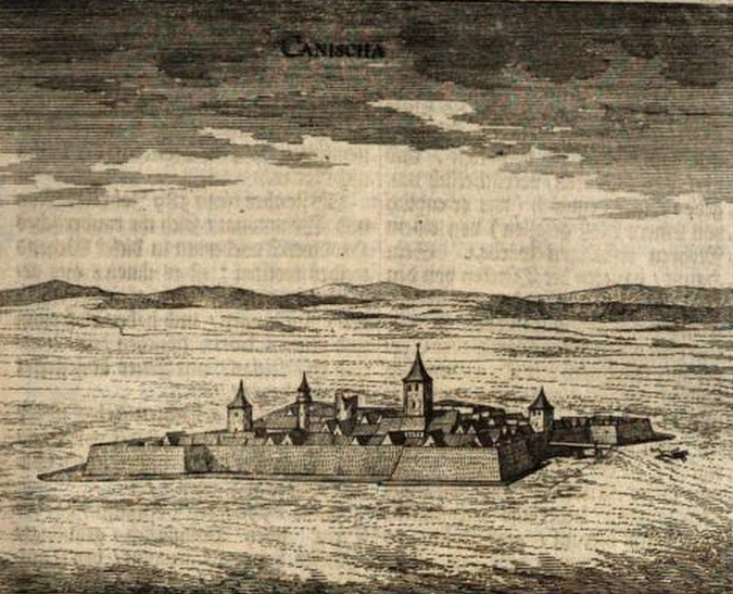 Nagykanizsa in 1689 (Johann Weikhard von Valvasor: "Die Ehre des Herzogthums Crain")